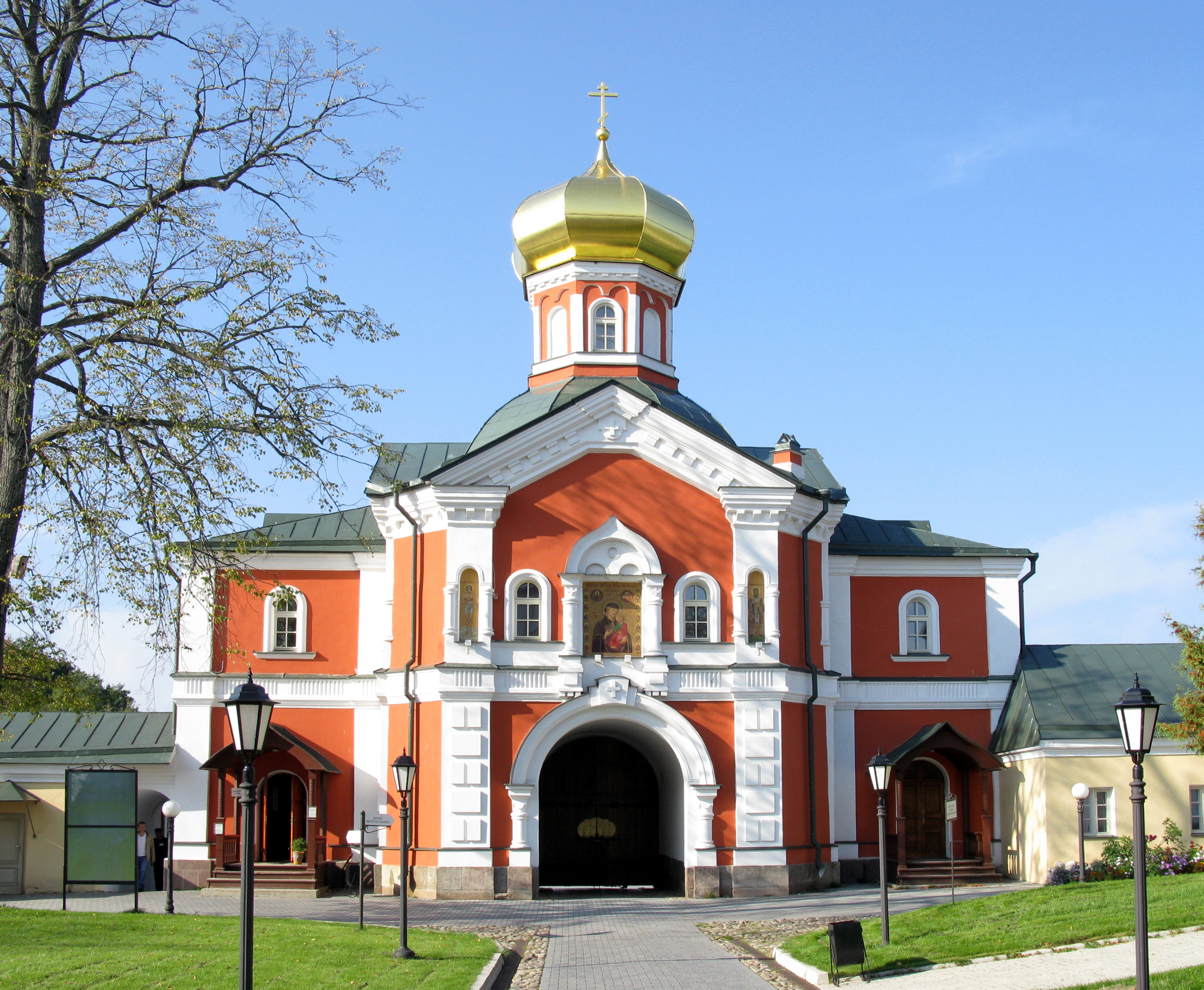 Church of Saint Philip II of Moscow in Iversky Monastery. (Valdai, Veliky Novgorod region)